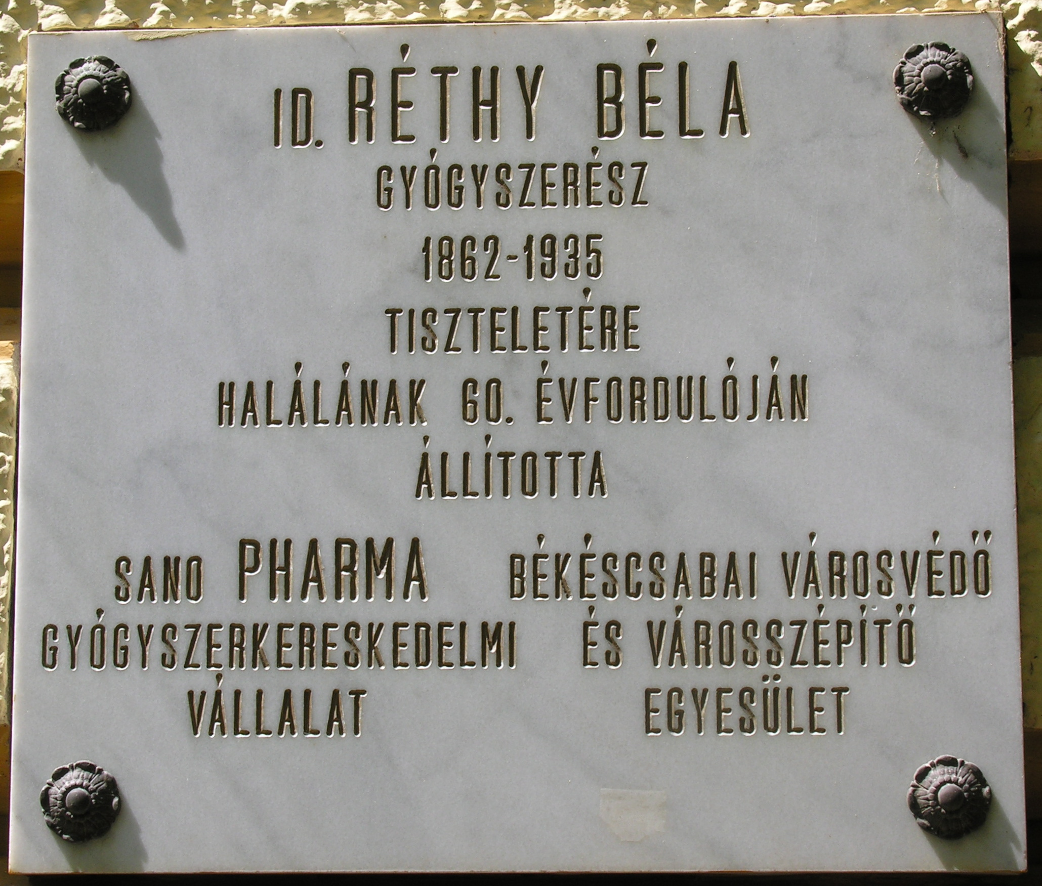 Plaque to Béla Réthy in Békéscsaba (Szent István tér 6-8.)